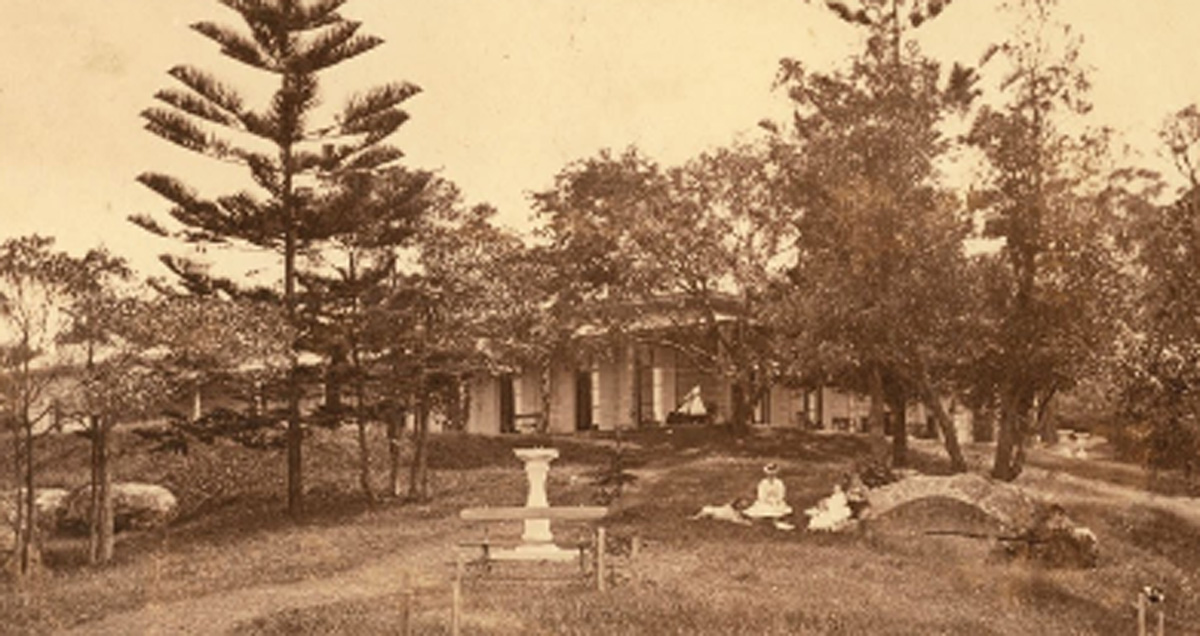 Admiralty House, Kirribilli, Sydney circa 1880 when it was called Wotonga and was owned by Mr Thomas Cadell